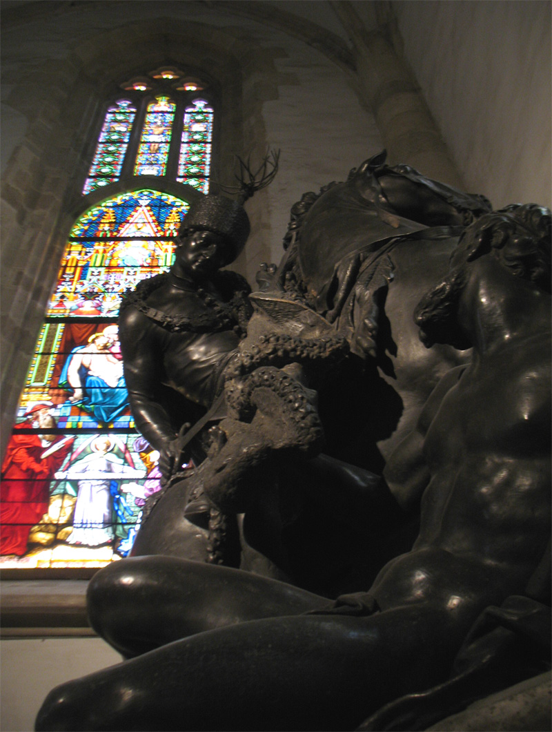 statue of St. Martin